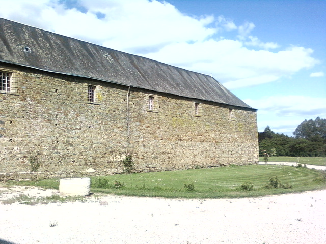 castle of Parc Soubise